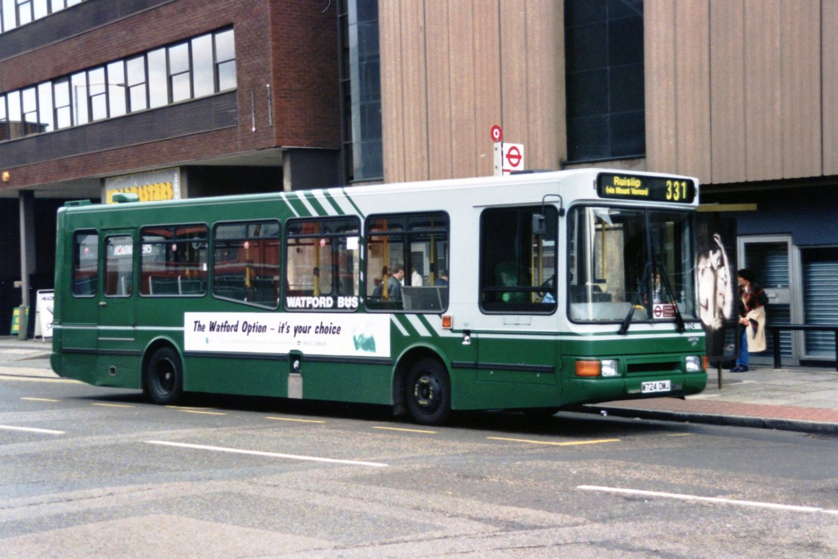 Luton & District Volvo B6 324 (M724 OMJ) at Watford in April 1995, in a green and grey livery originally used by London Country North West and with Watford Bus branding. This operation is now part of Arriva the Shires & Essex.